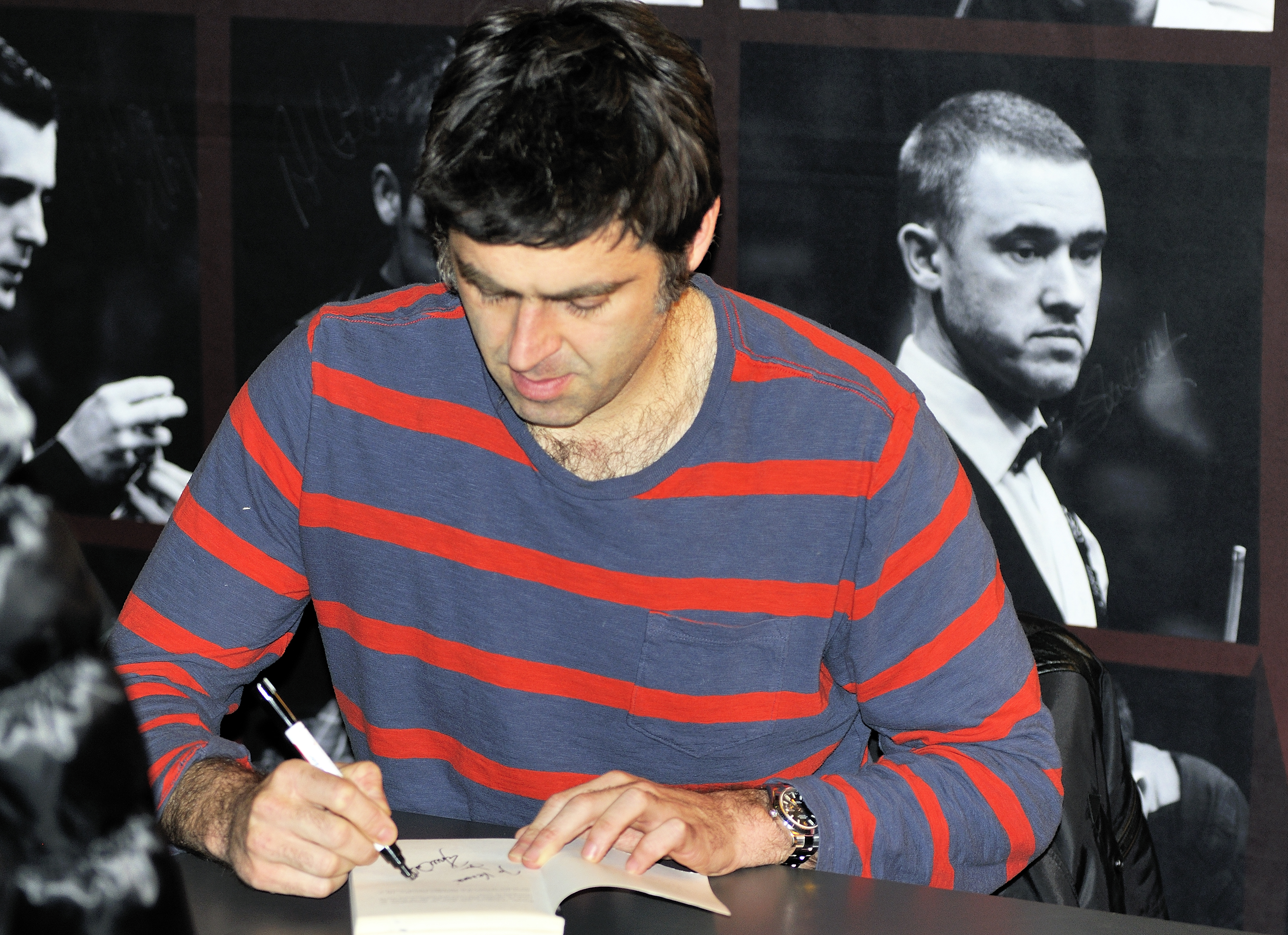 Picture taken in Berlin during the Snooker German Masters in 2014. Ronnie O’Sullivan.